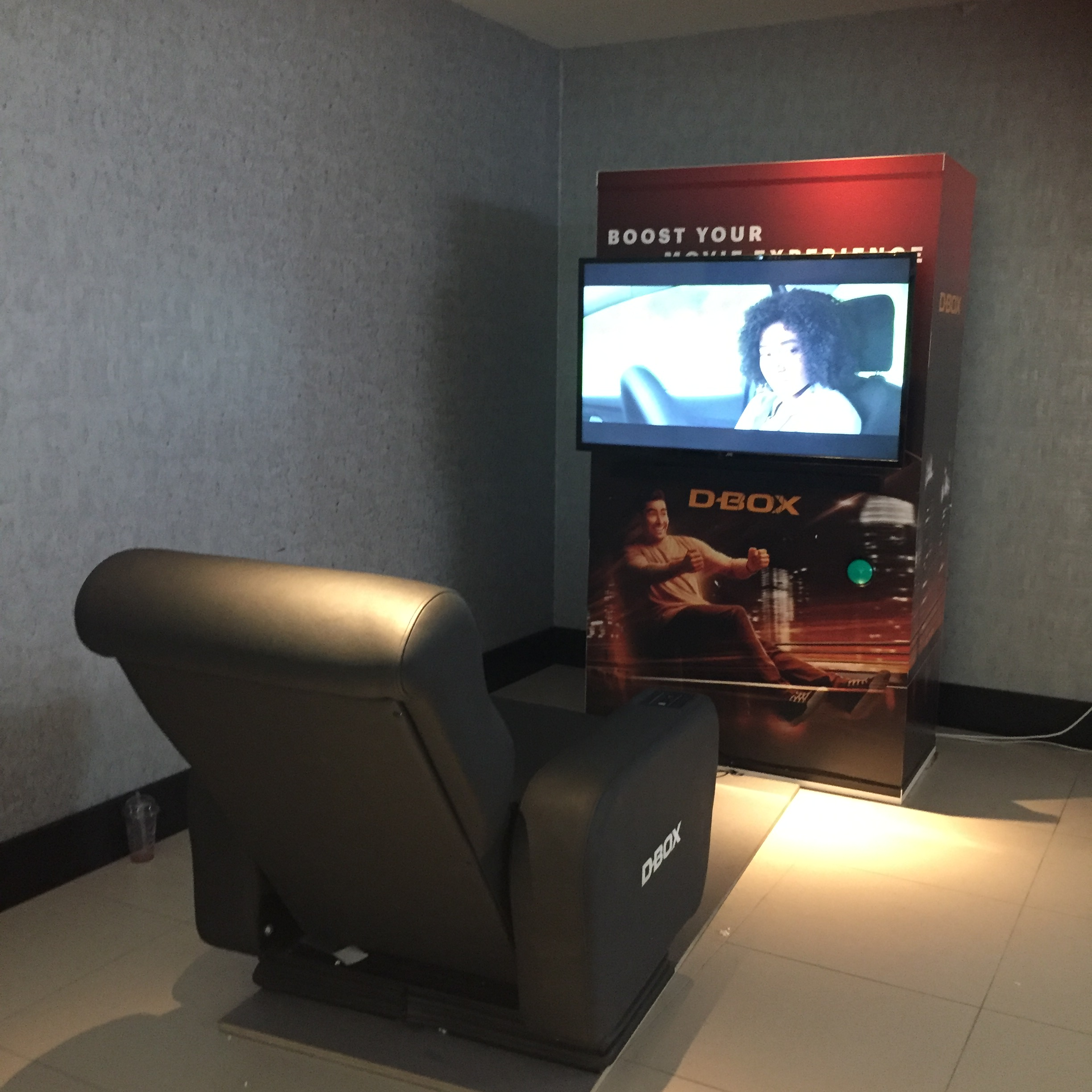 A photo of a DBOX trial machine in Surrey, London.